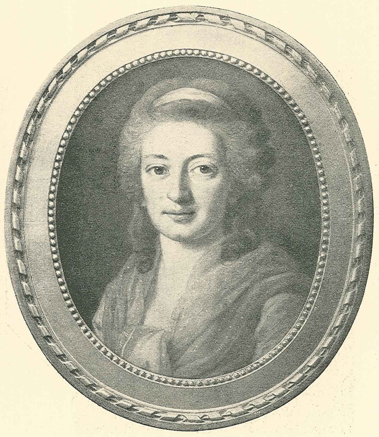 Brita Lovisa Gjörwell, later Almqvist (1768-1806), daughter of writer Carl Christoffer Gjörwell Sr. and wife of Carl Gustaf Almqvist.